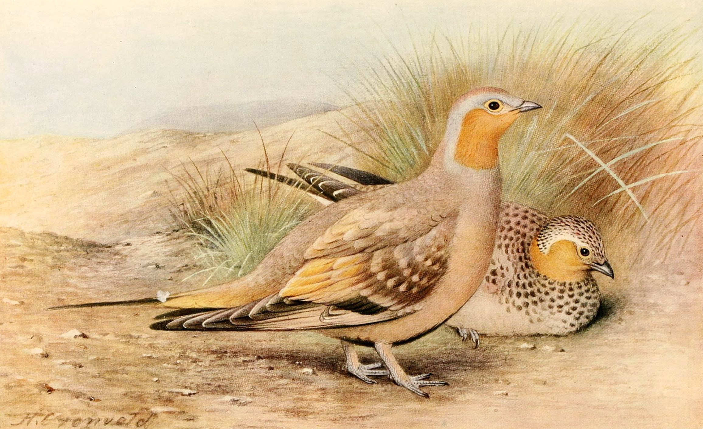 The Spotted Sand-grouse Pteroclurus senegallus = Pterocles senegallus (Spotted Sandgrouse)